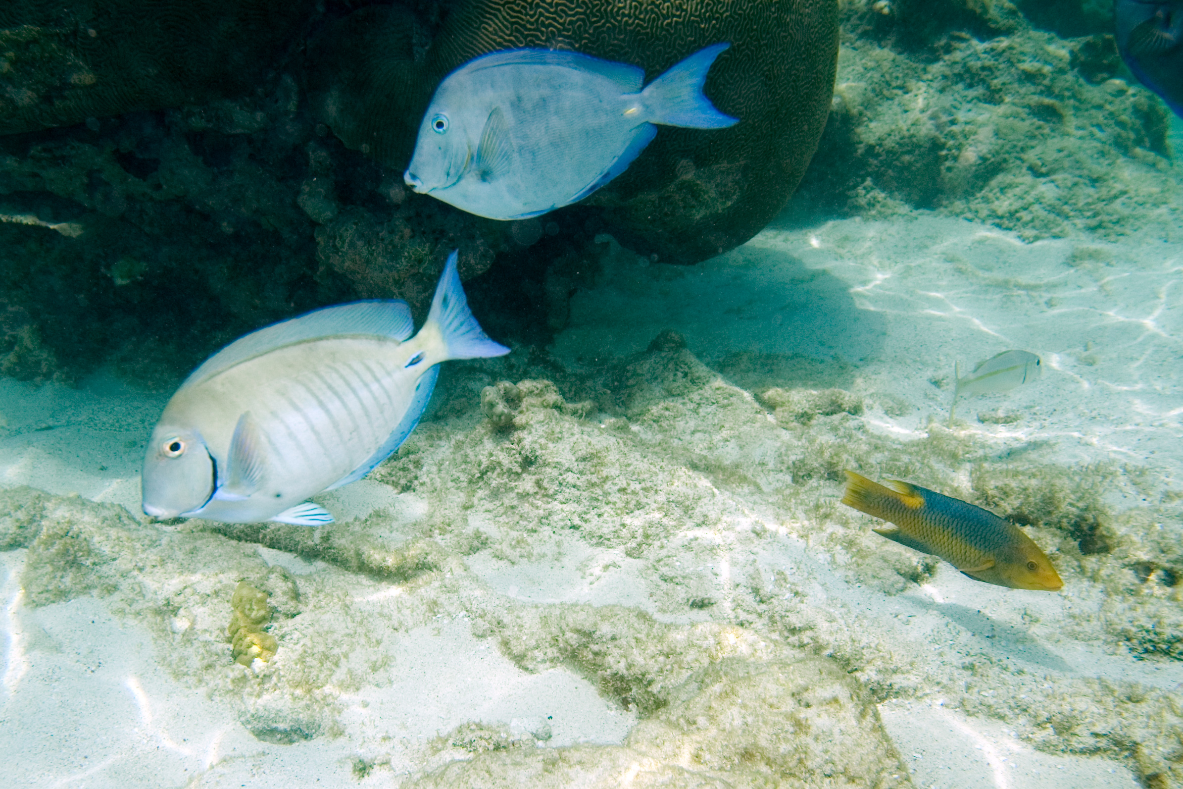 Acanthurus chirurgus and Acanthurus coeruleus, with spanish hogfish Bodianus rufus. We saw several surgeonfishes with black blotches.